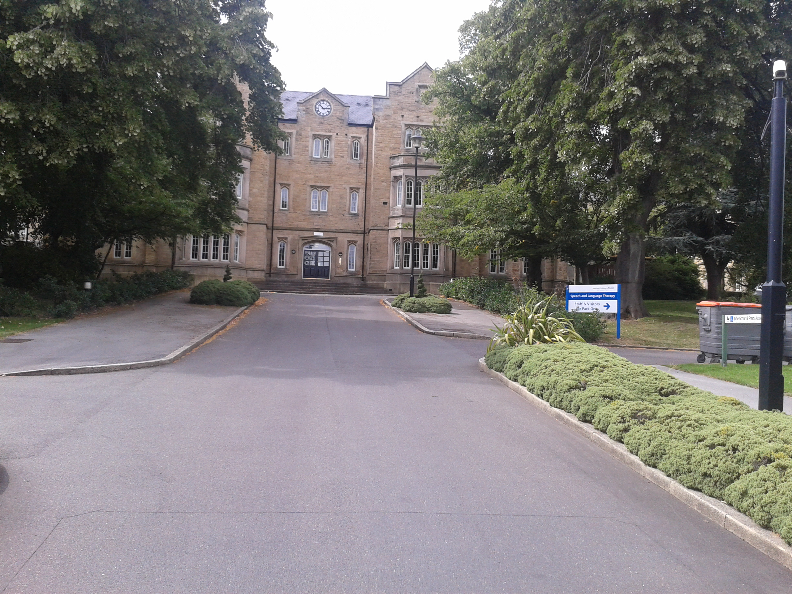 Kingswood Building off Union Road in the Nether Edge area of Sheffield. Formerly part of the Nether Edge Hospital.